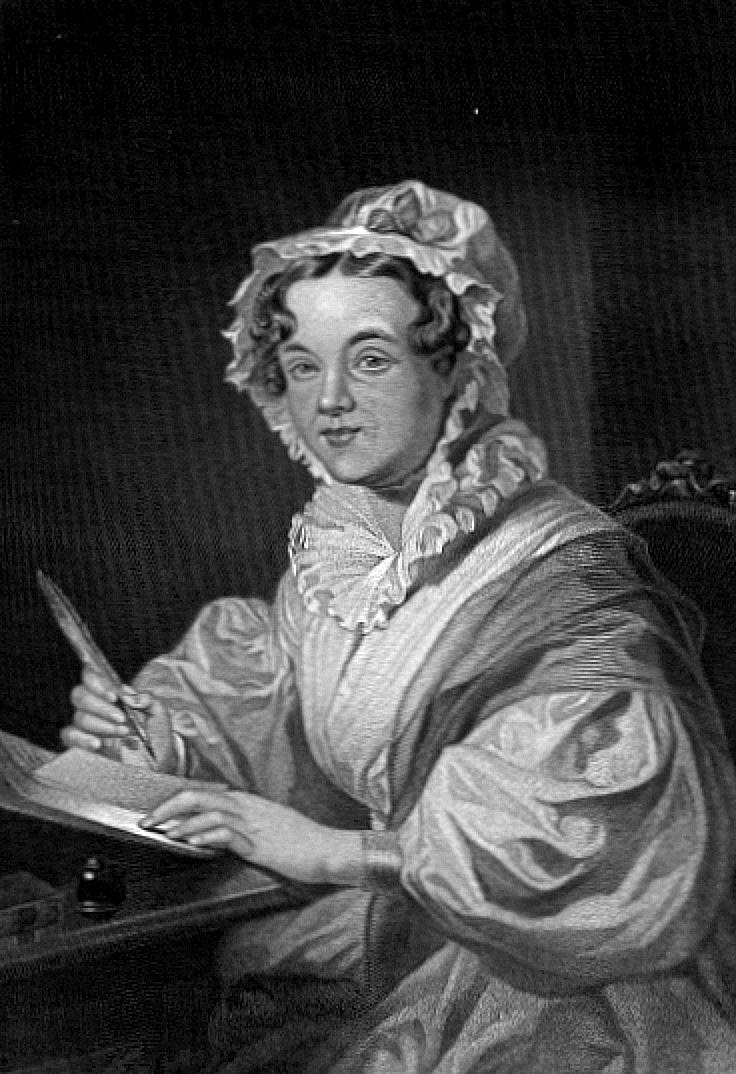 from